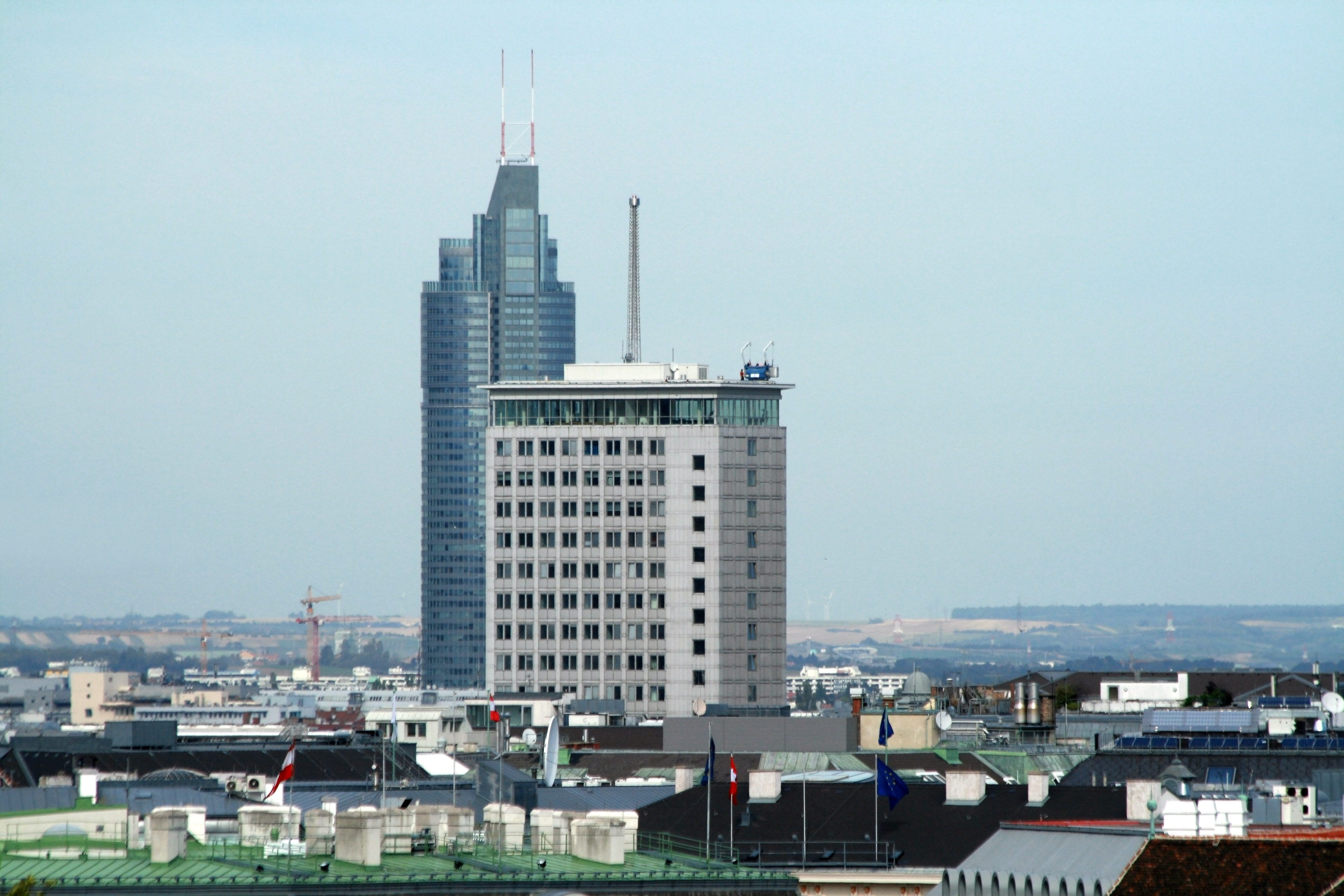 Vienna, Austria: Ringturm with Millennium Tower in the background.